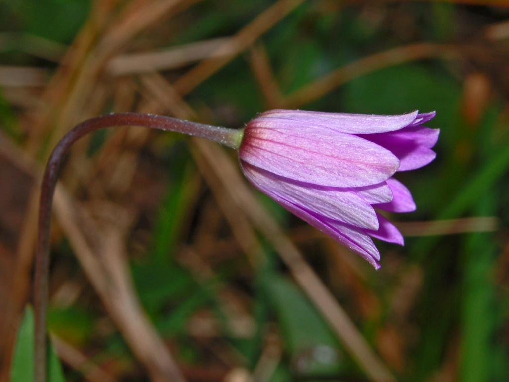 Anemone hortensis - Genova, Italy